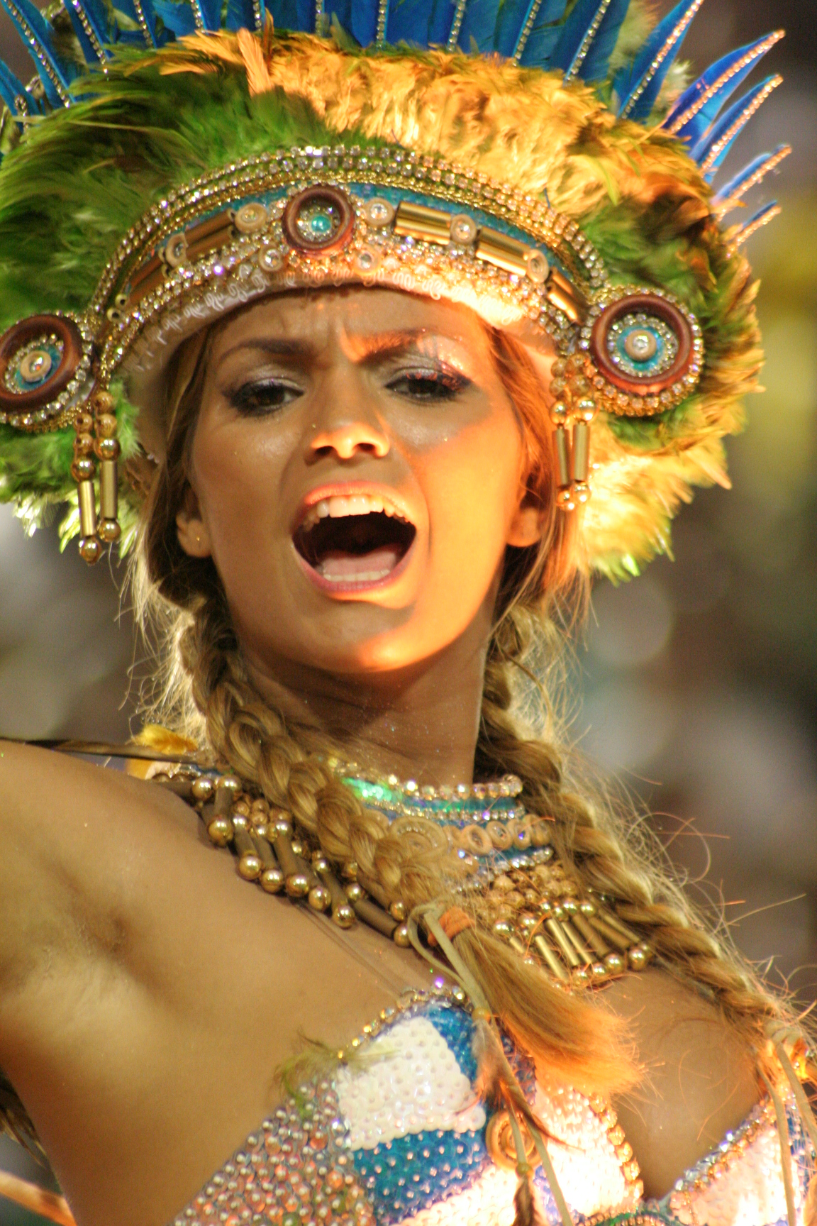 Carnival, Marquês de Sapucaí, in Rio de Janeiro, Brazil